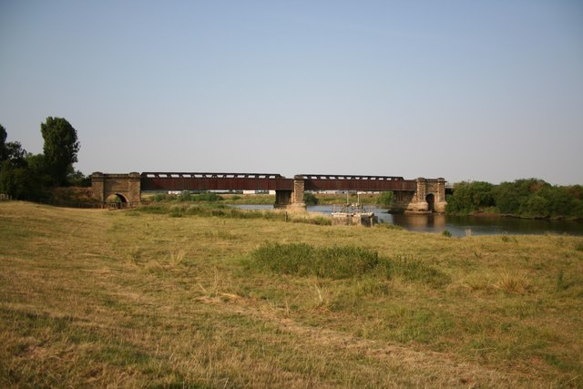 Torksey Viaduct. From the west bank of the River Trent